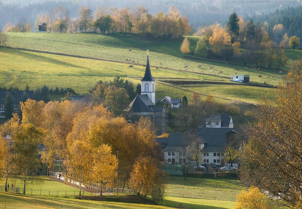 view of the church of Crandorf